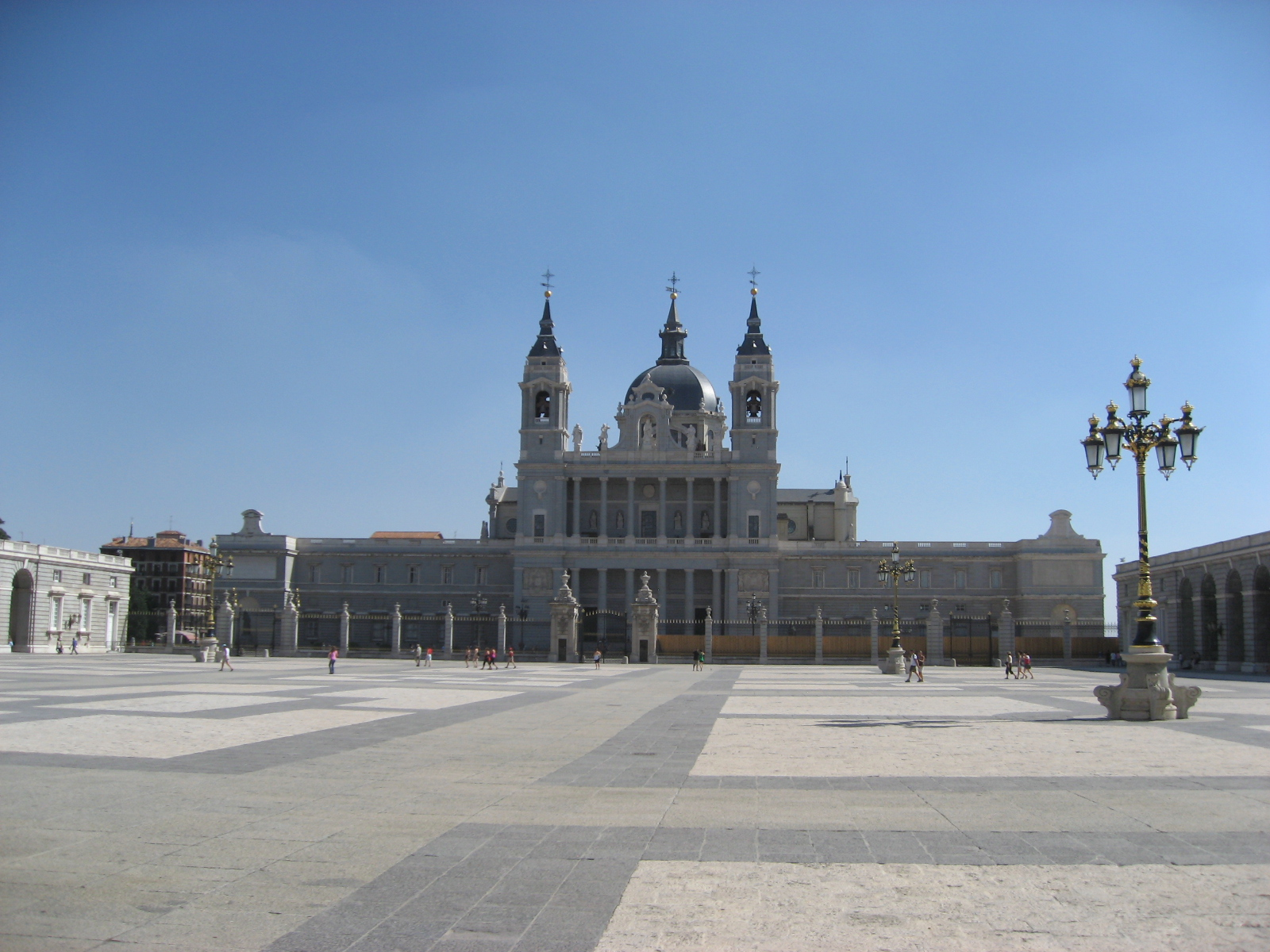 Cathedral of Almudena in Madrid.